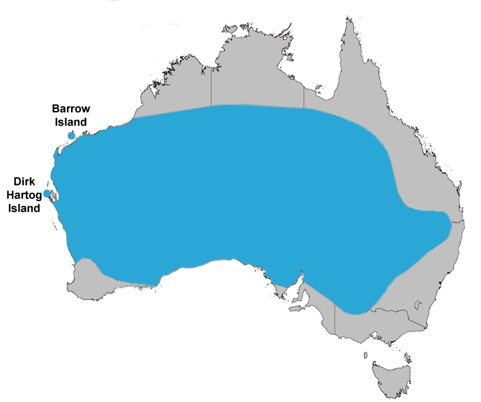 Distribution map for the White-winged Fairy-wren